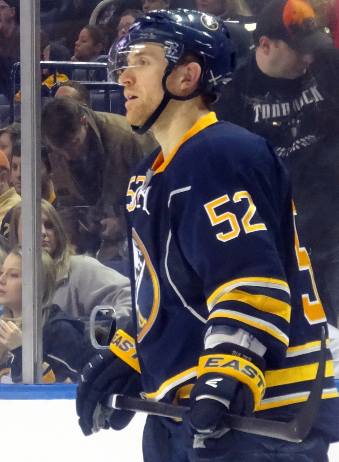 Buffalo Sabres defenseman Alexander Sulzer skates against the Pittsburgh Penguins, February 17, 2013 at First Niagara Center in Buffalo, NY.